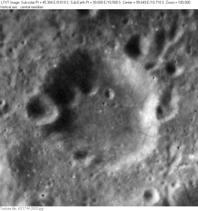 Image AS17-M-2820